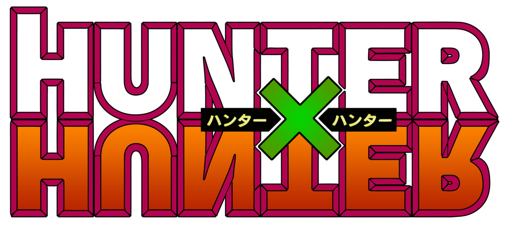 Hunter x Hunter